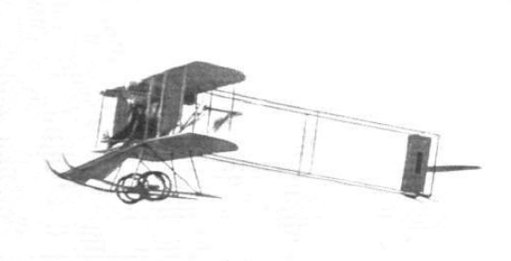 Alec Ogilvie's Wright Model R in flight at the Eastchurch Gordon Bennett Trophy in summer 1911.